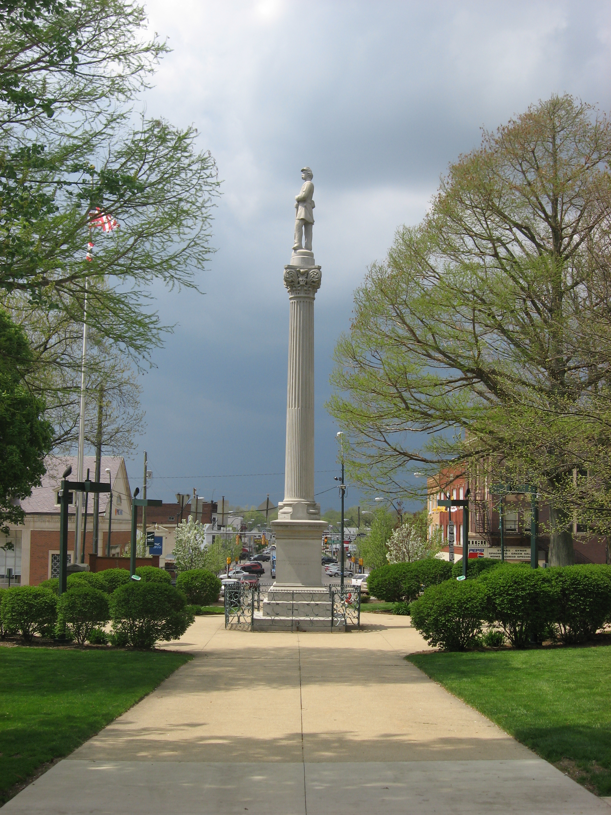 Monument in the park in the middle of a roundabout at the central square of Mount Vernon, Ohio, United States, located at the intersection of U.S. Route 36 and State Routes 3, 13, and 229.